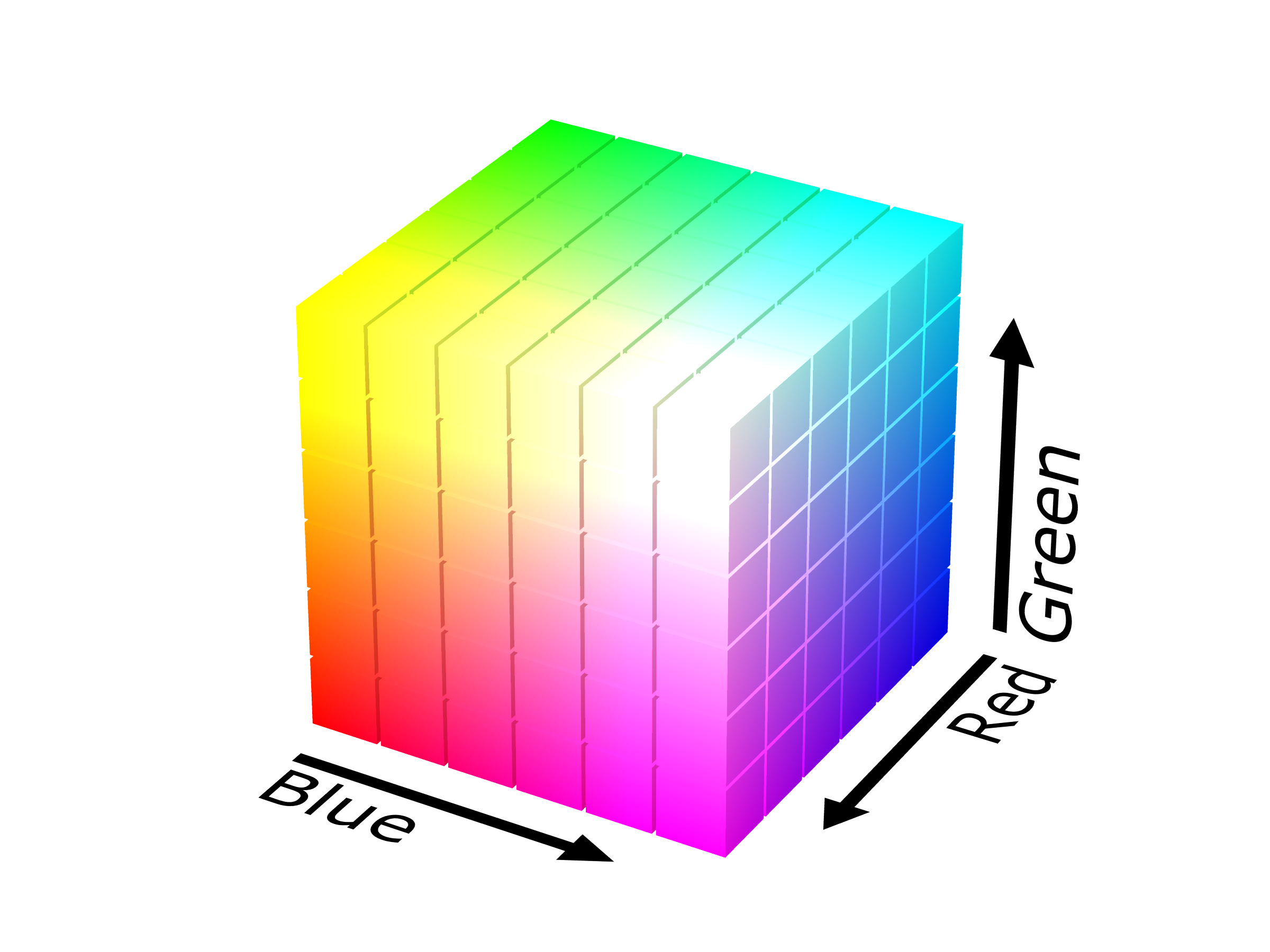 The RGB color model mapped to a cube. POV-Ray source is available from the POV-Ray Object Collection.